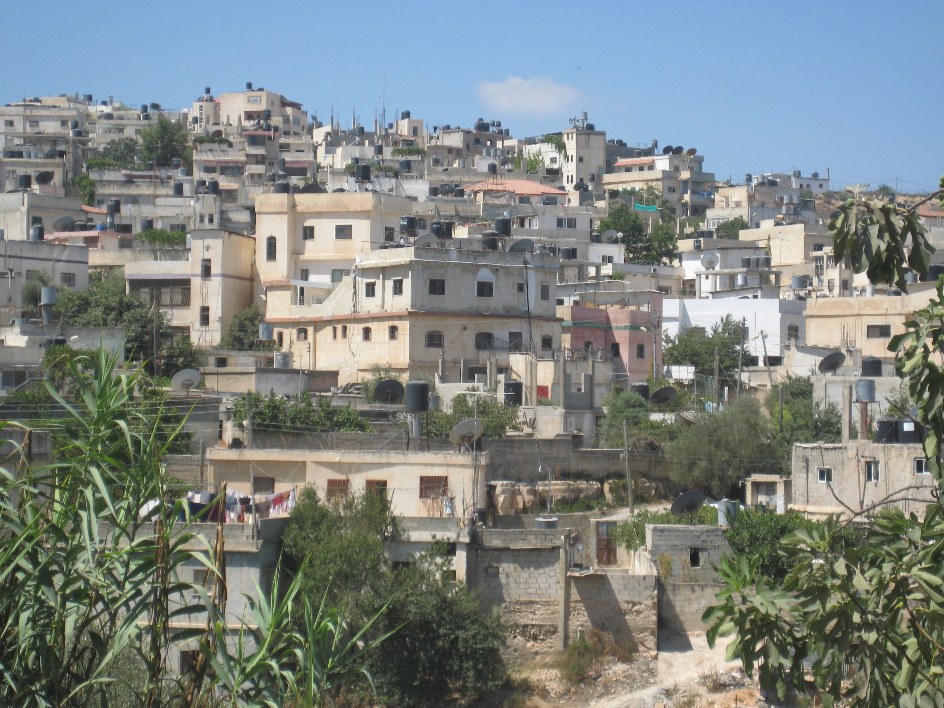 Early morning, from Jifna road looking up to al Jalazone refugee camp.